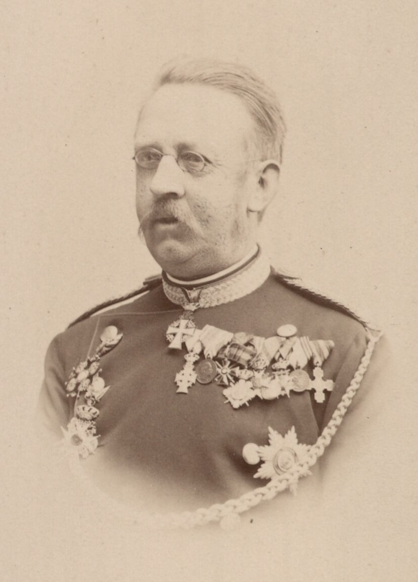 Marius Sophus Frederik Hedemann (1836-1903), Danish general and politician, MP